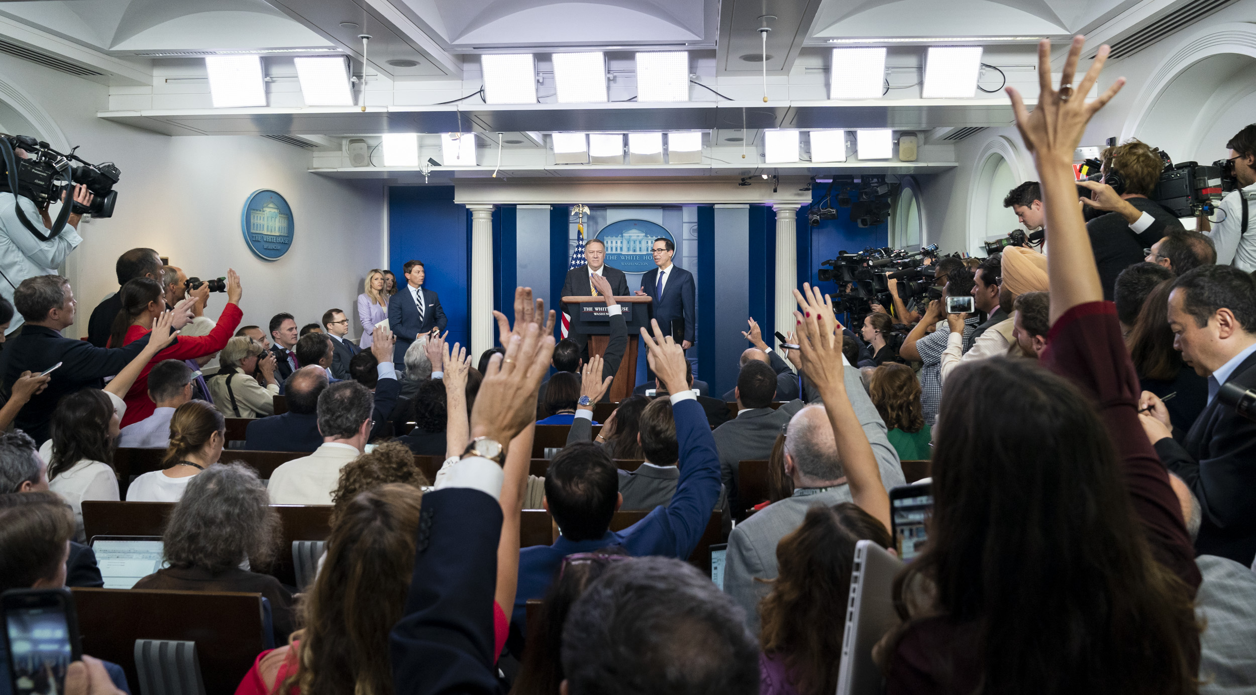 Secretary of State Mike Pompeo and Secretary of the Treasury Steven Mnuchin speak to reporters Tuesday, Sept. 10, 2019, in the James S. Brady Press Briefing Room of the White House. (Official White House Photo by Andrea Hanks)